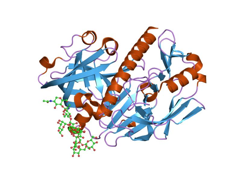 Cartoon representation of the molecular structure of protein registered with 1dp5 code.